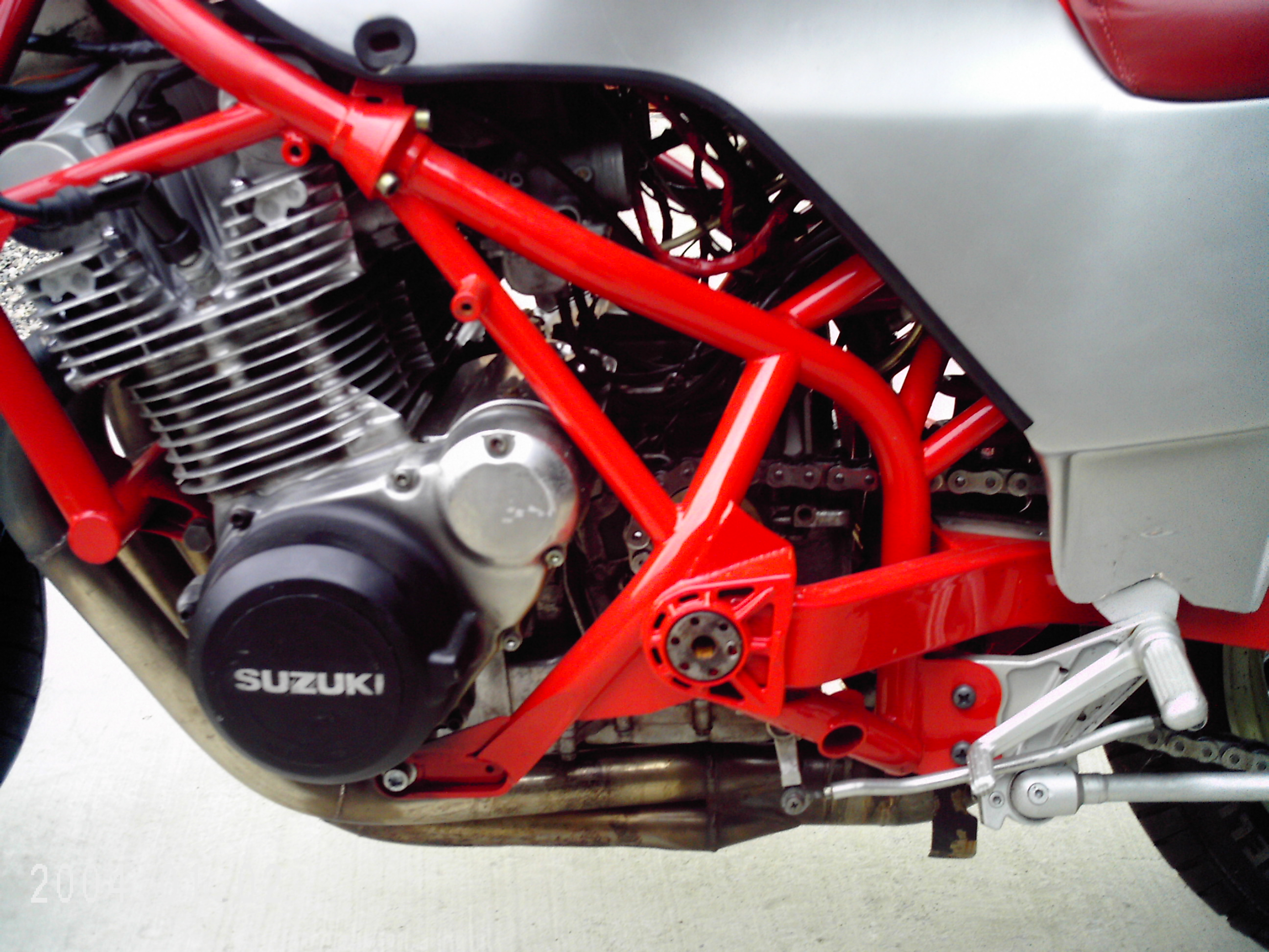 Swing arm of a Bimota SB3